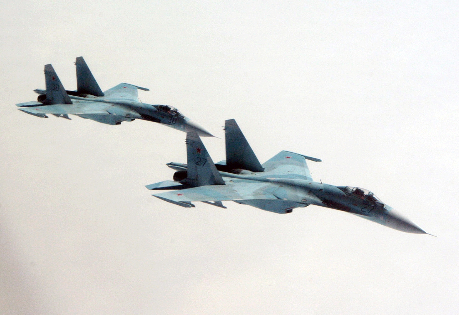 A pair of Russian Air Force Su-27 Flanker aircraft, Nov. 24th, 2010.